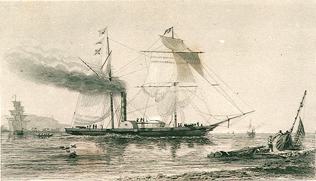 The Nemesis